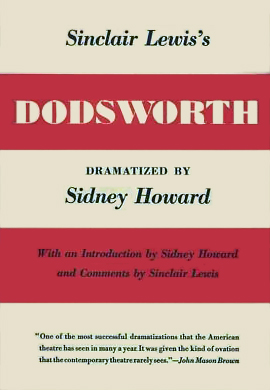 Front cover of the dust jacket for Sinclair Lewis's Dodsworth as dramatized by Sidney Howard